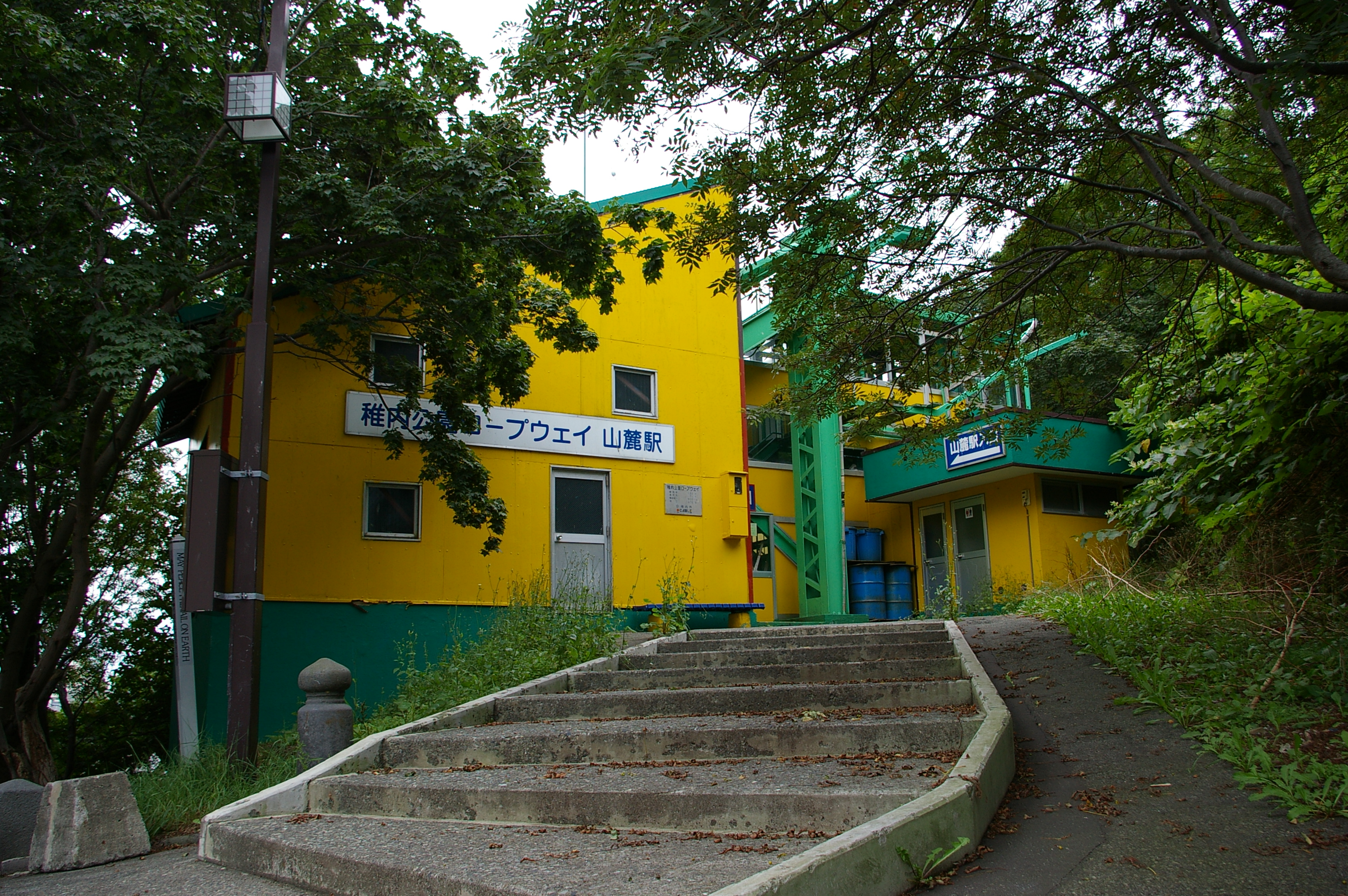 Wakkanai park rope way foot station.